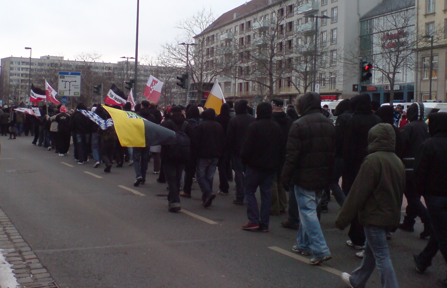 „Trauermarsch“ (mourning march) of the far-right NPD/JLO in Dresden on february 14th.